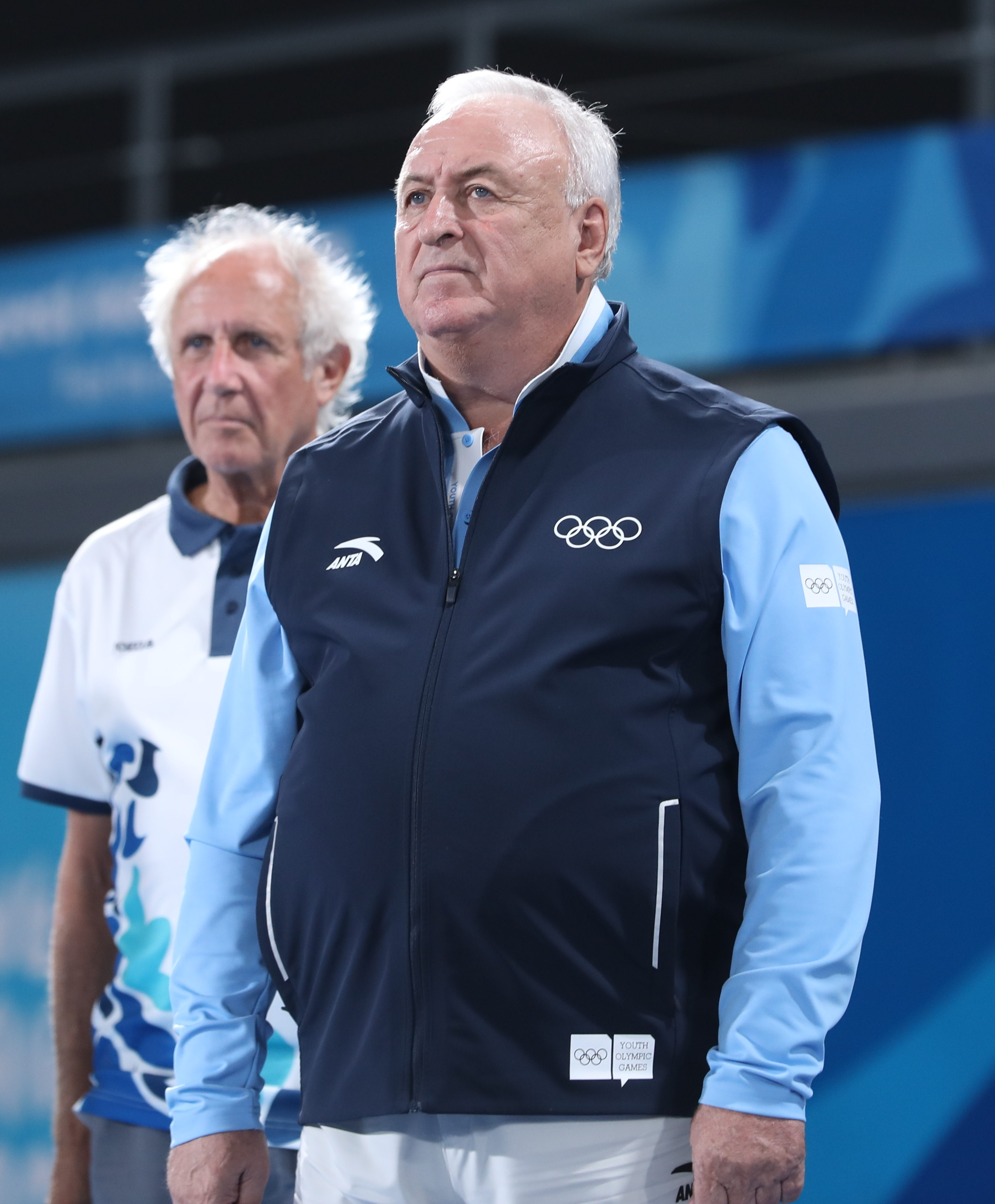 Gymnastics mixed multi-discipline team competition: Victory ceremony